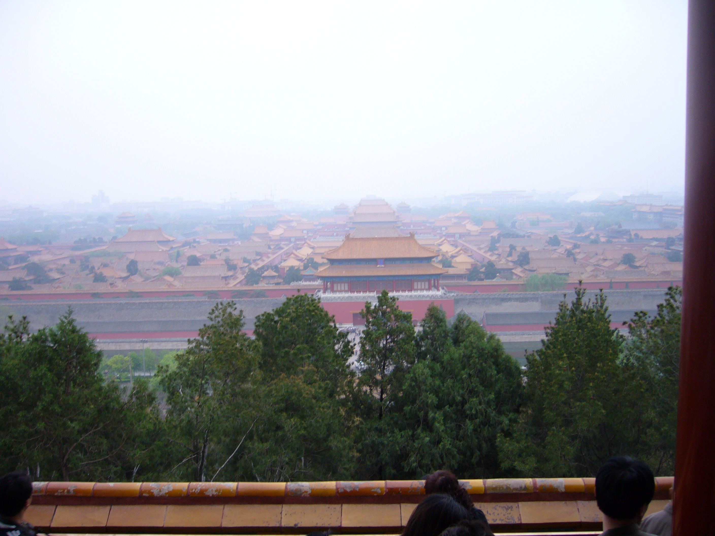 View from Coal Hill over the Forbidden City